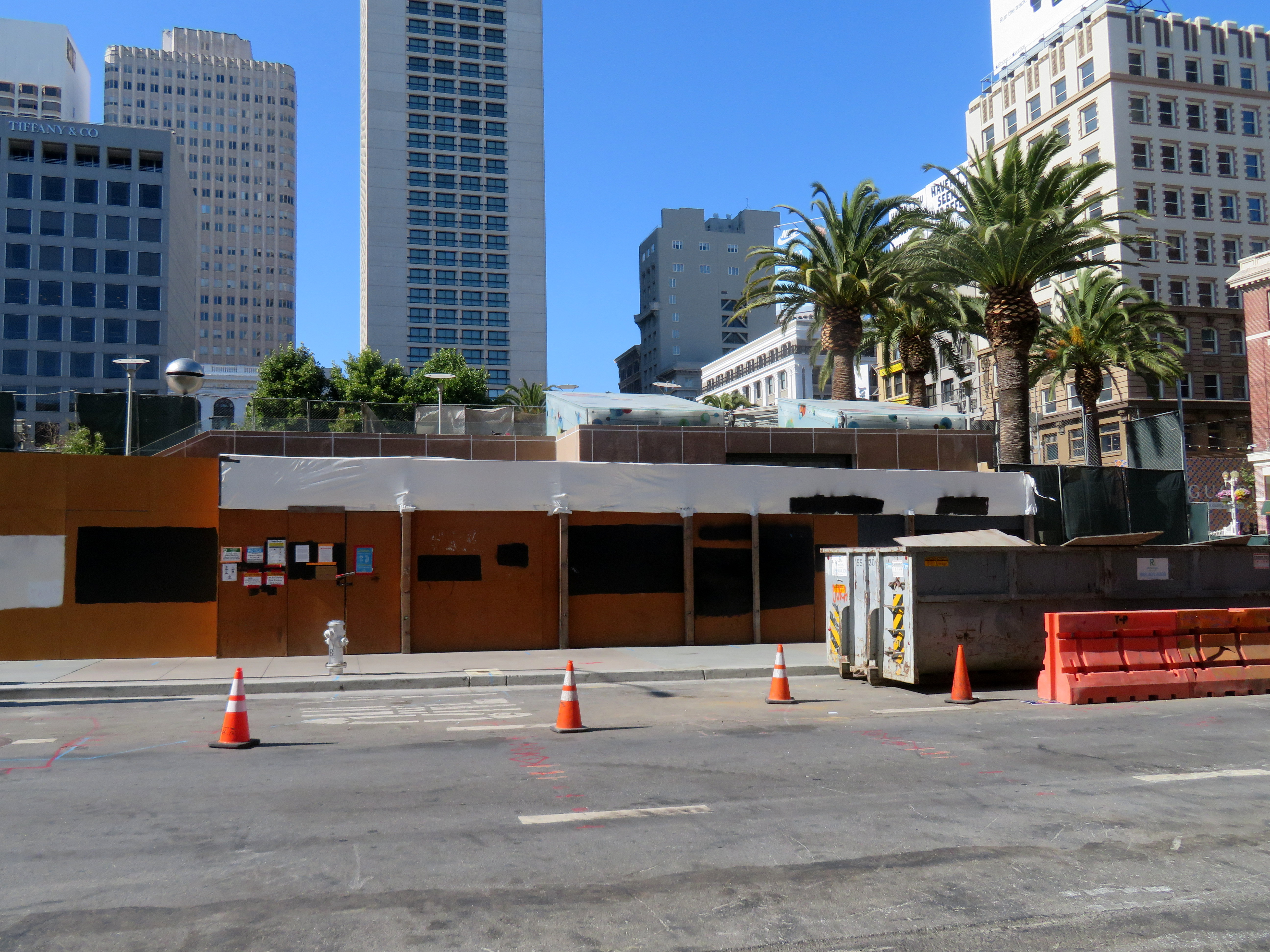 The Union Square headhouse of Union Square/Market Street station under construction in August 2020